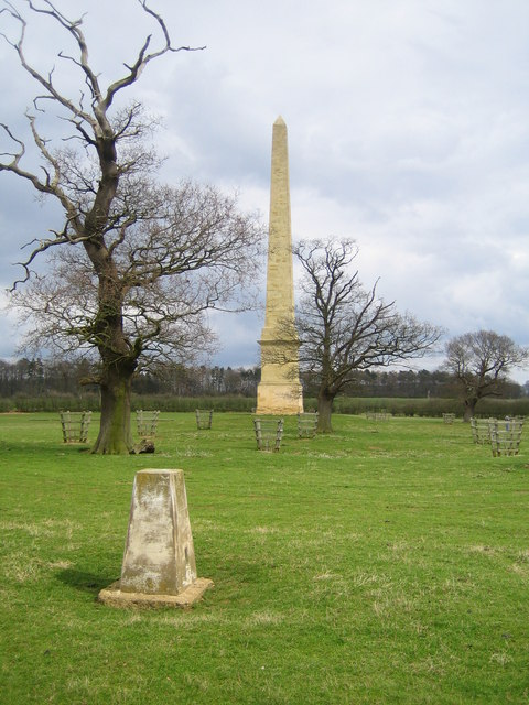 Stowe: Wolfe's Obelisk Built in 1759 to commemorate General Wolfe's victory at the Battle of Quebec, the newly planted trees around the obelisk are positioned to reflect the layout of his regiments in the battle. The Stowe Ordnance Survey Triangulation Pillar is in the foreground.